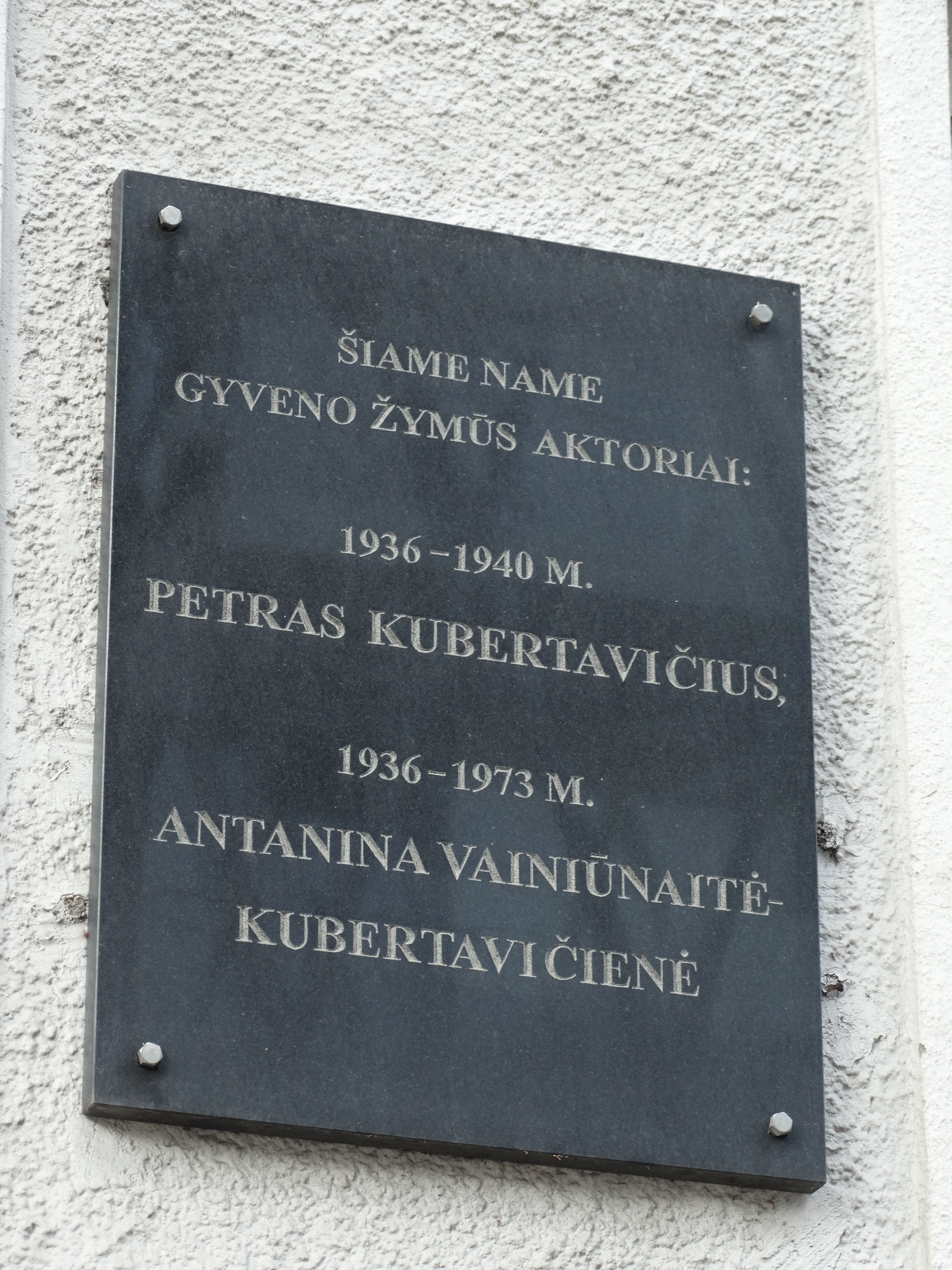 Memorial plaque to Petras Kubertavičius, Kaunas, Lithuania